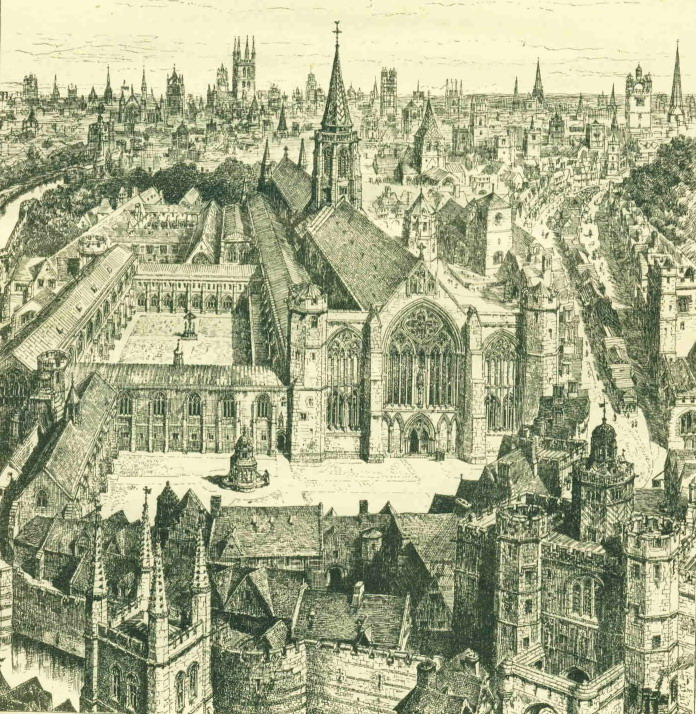 Poster of Newgate in the sixteenth century.